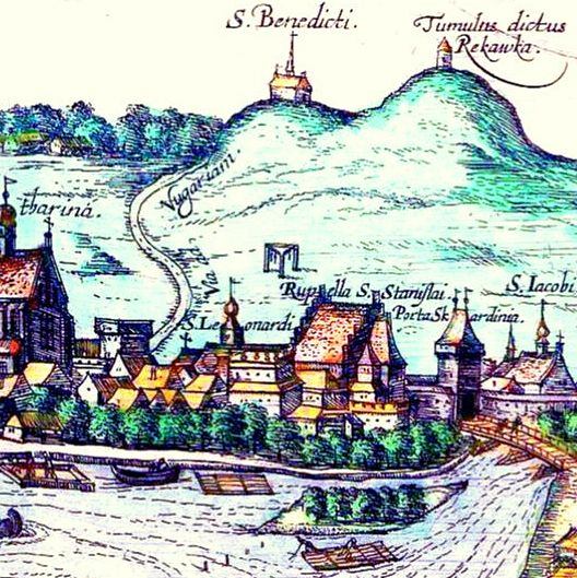 1618 in Kazimierz